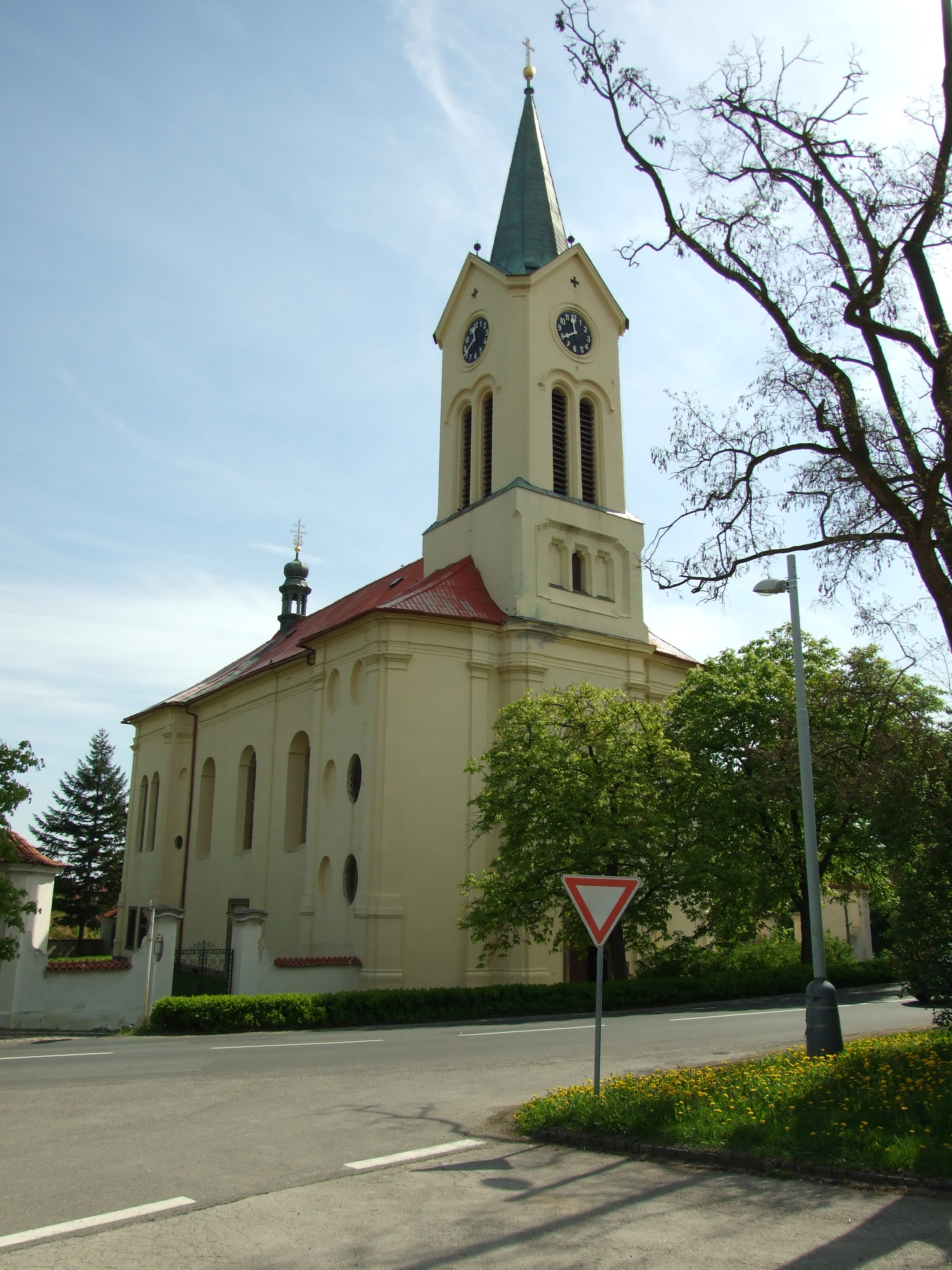 Town of Mníšek pod Brdy and its surrounding nature in Central Bohemian region, CZhelp